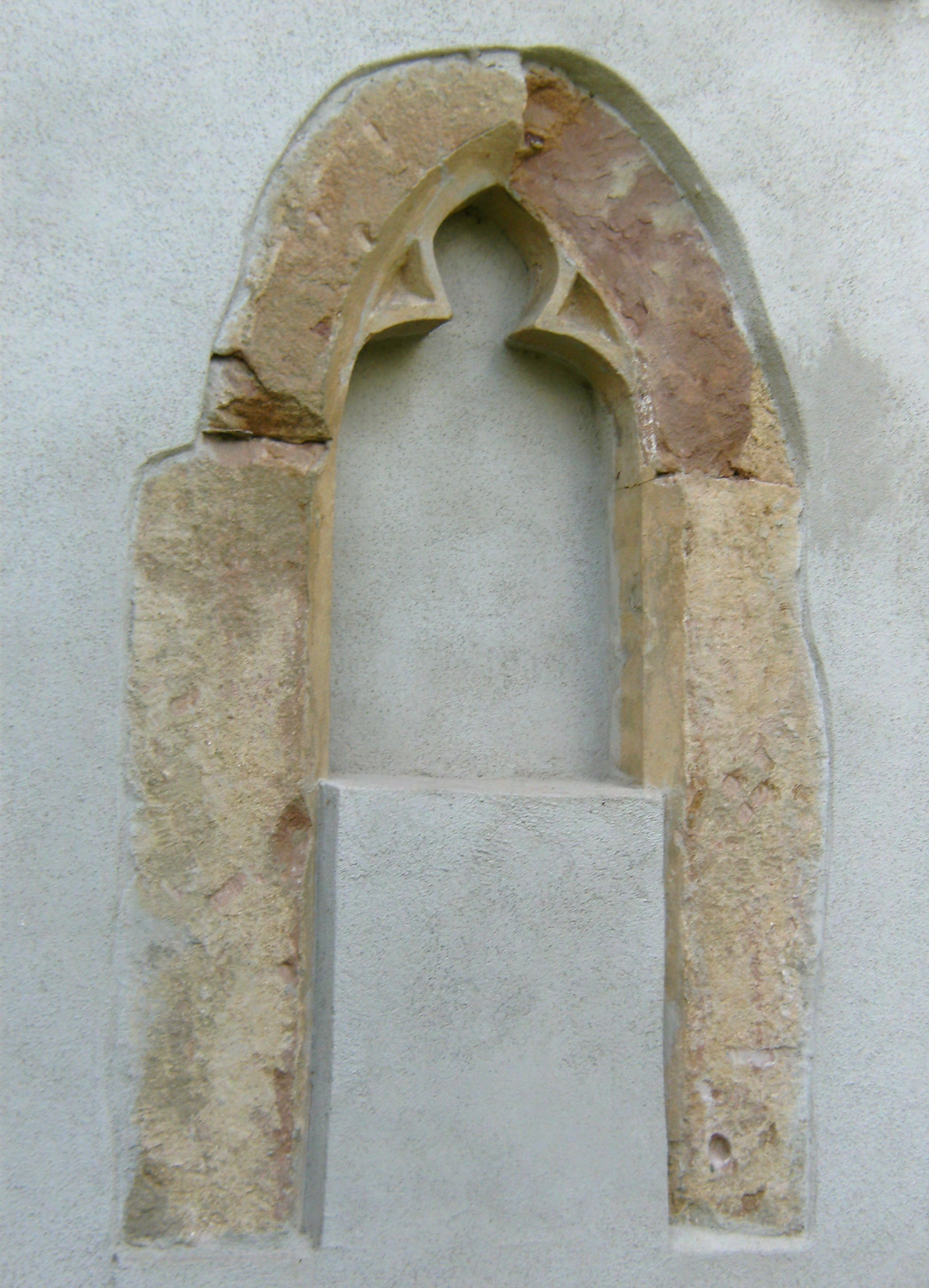 Tinz church, gothic window.